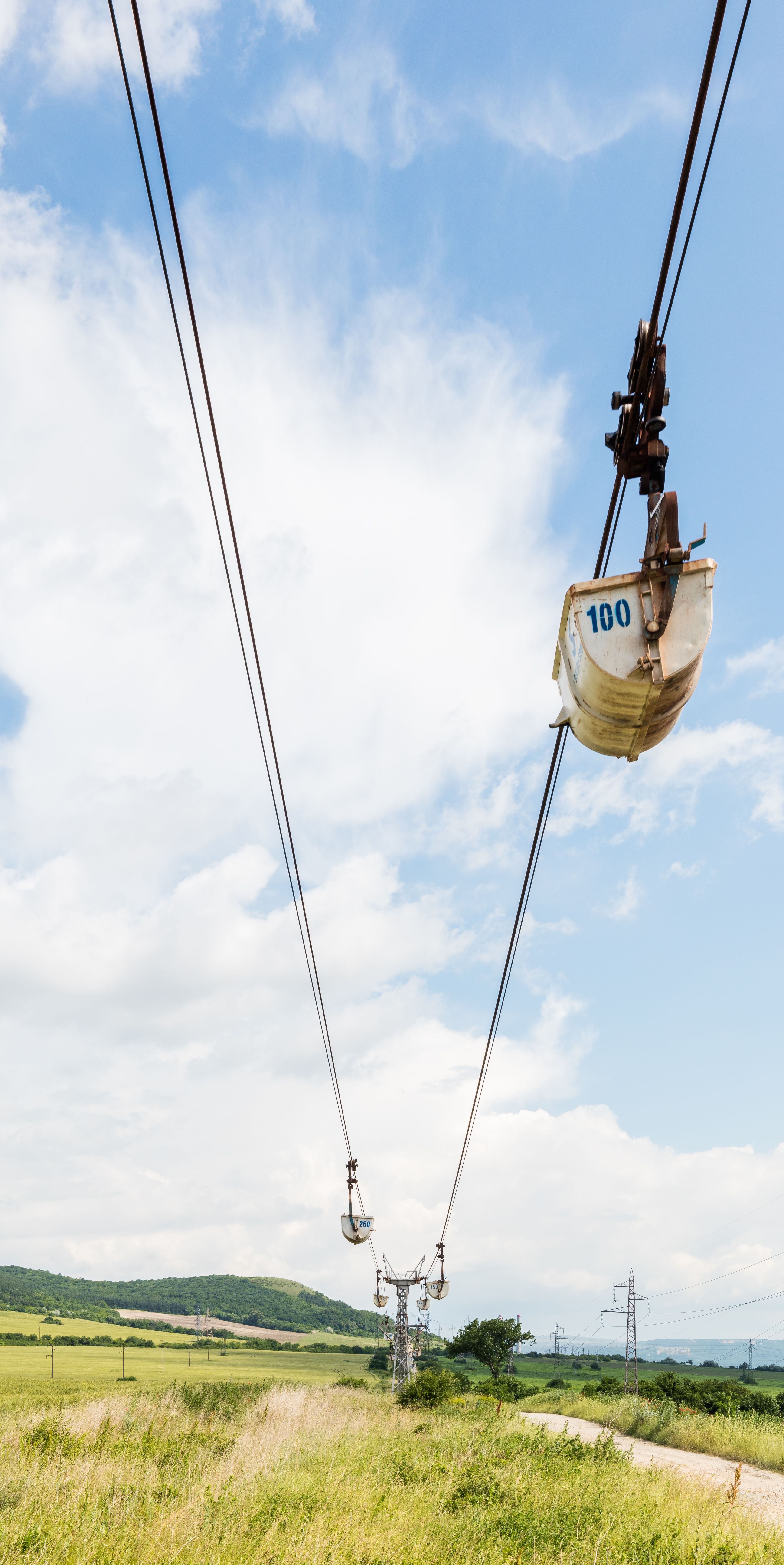 Mineral cable transport, Bulgaria